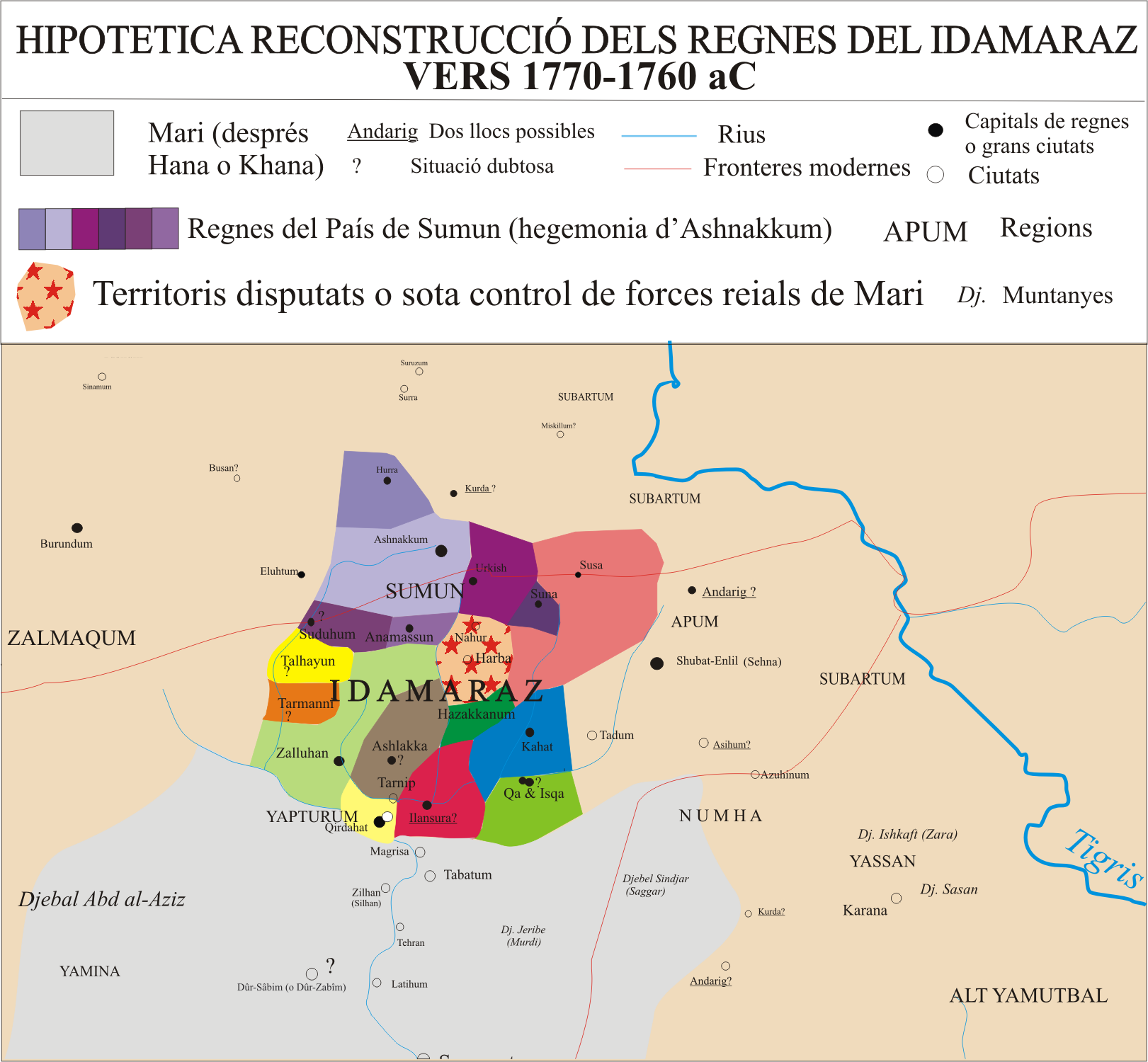 Hipotetic reconstruction of the Idamaraz Kingdoms c. 1770-1760 aC